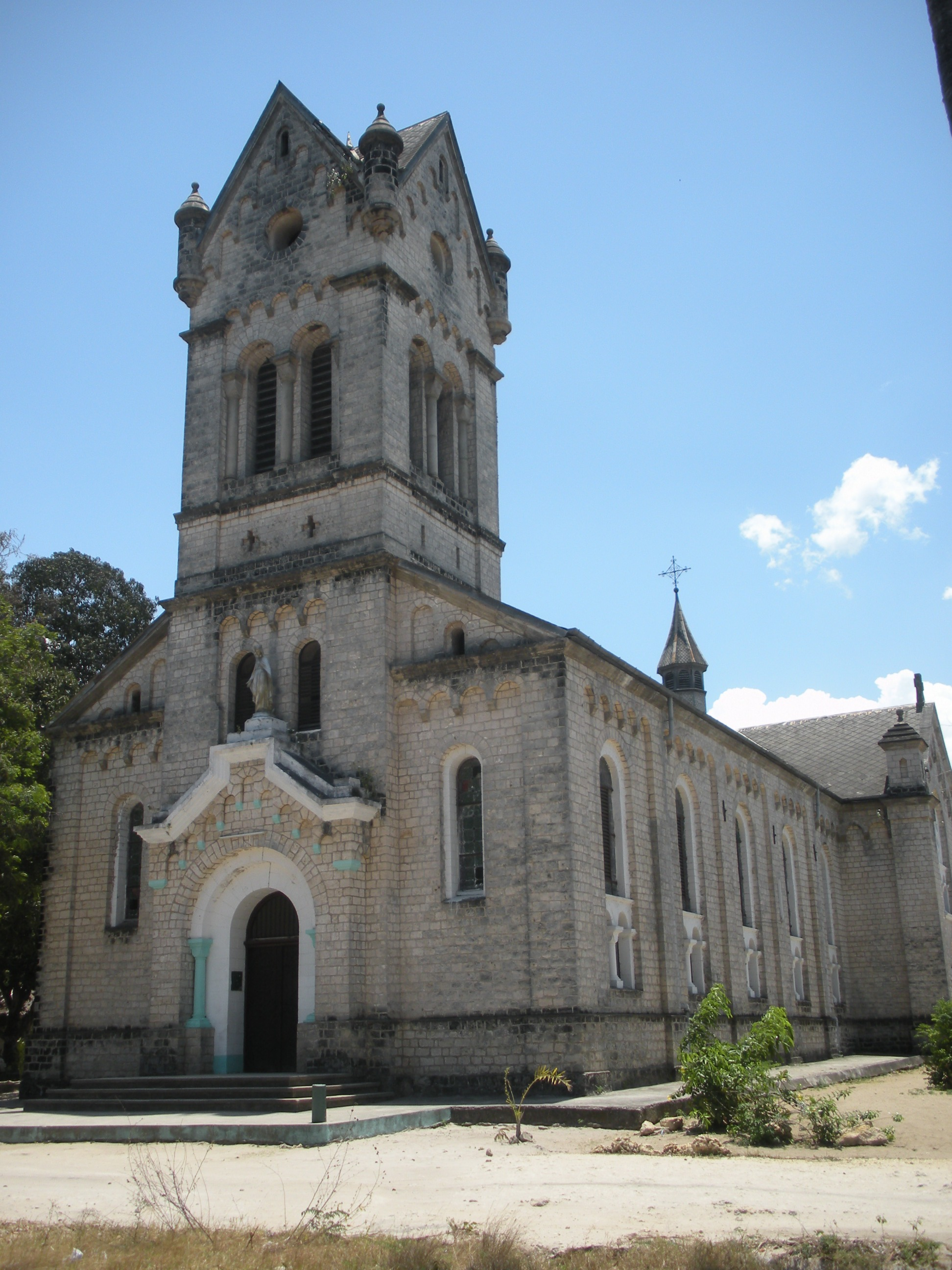 The Old Church at Bagamoyo,Tanzania. This photo has been taken by Mr.Chen Hualin.